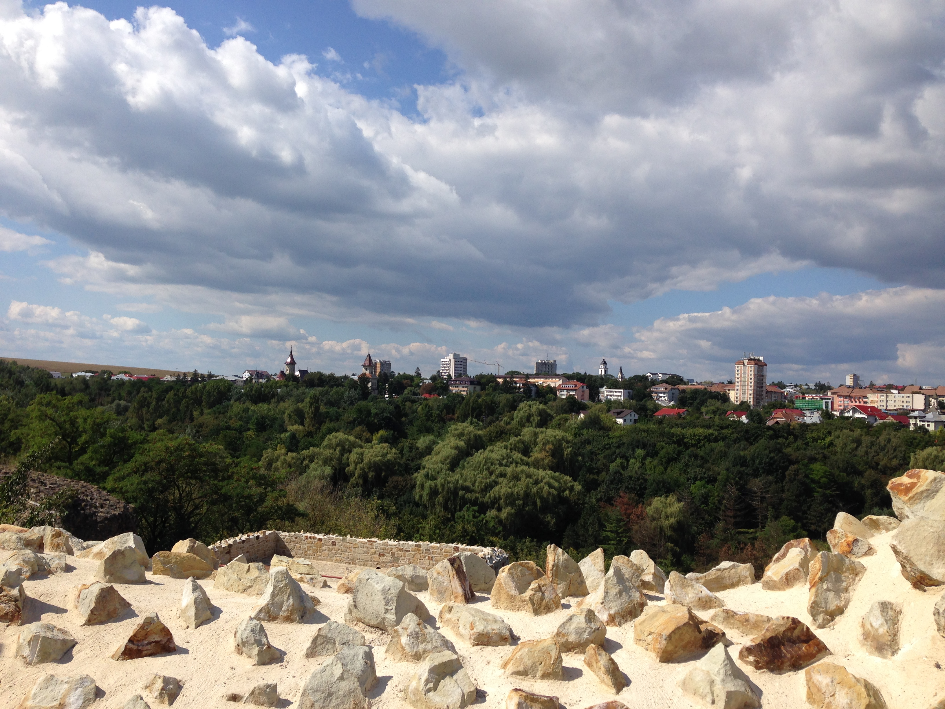 Seat Fortress of Suceava – walls on the west side and general view on the city center of Suceava.